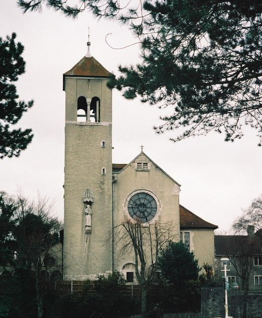 Parish church of St Francis of Assisi, Charminster Road, Bournemouth, seen from the west